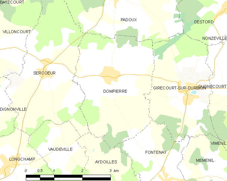 Map of French municipality Dompierre